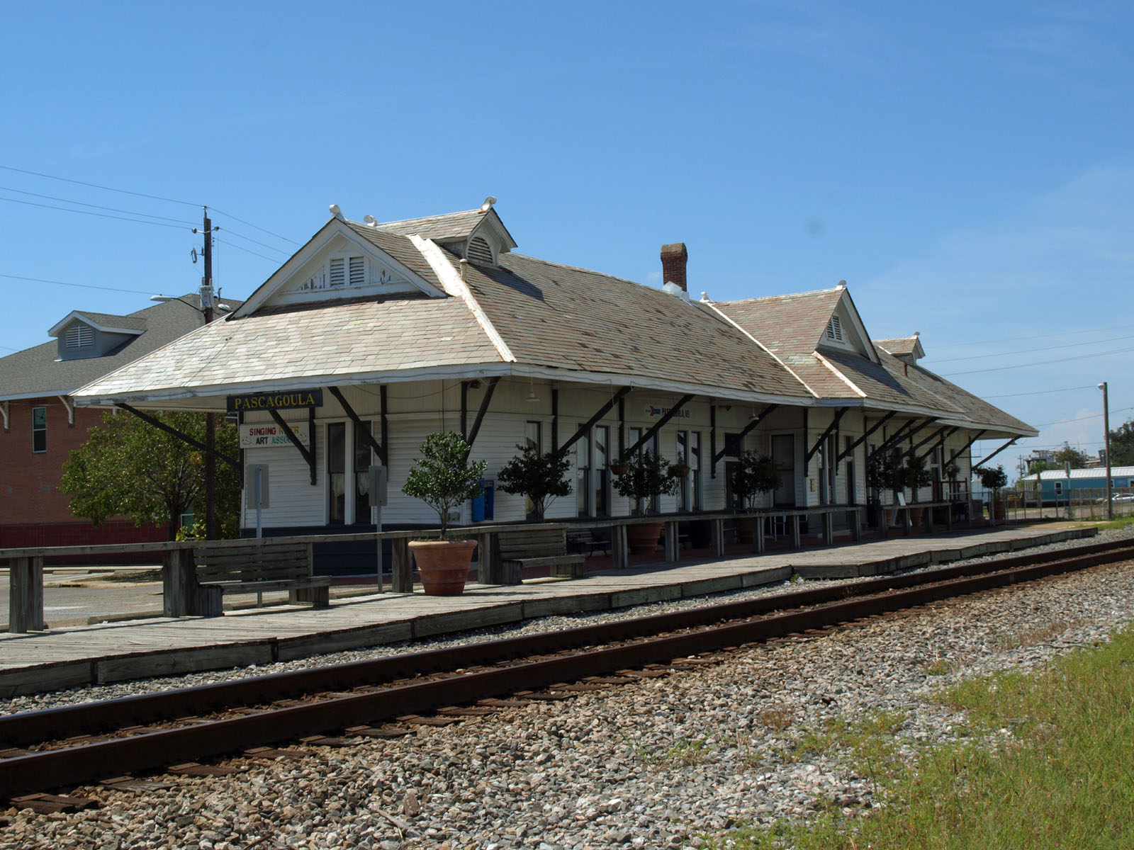 The Pascagoula Train Station in Pascagoula, Mississippi, listed on the National Register of Historic Places